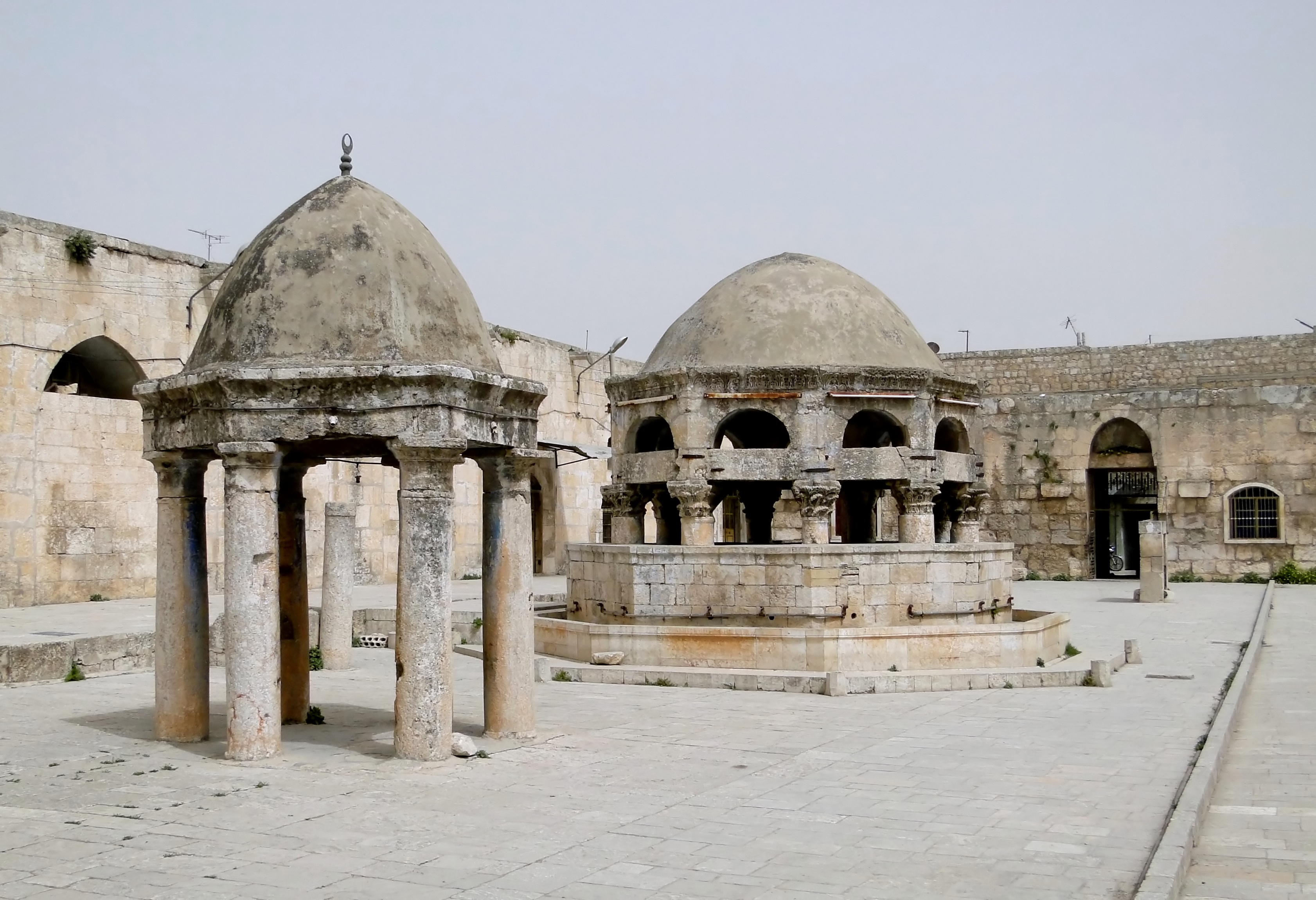 Great Mosque of Maarrat al-Numan, Syria